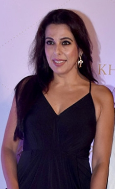 Pooja Bedi at the launch of 'A Bejewelled Life'.